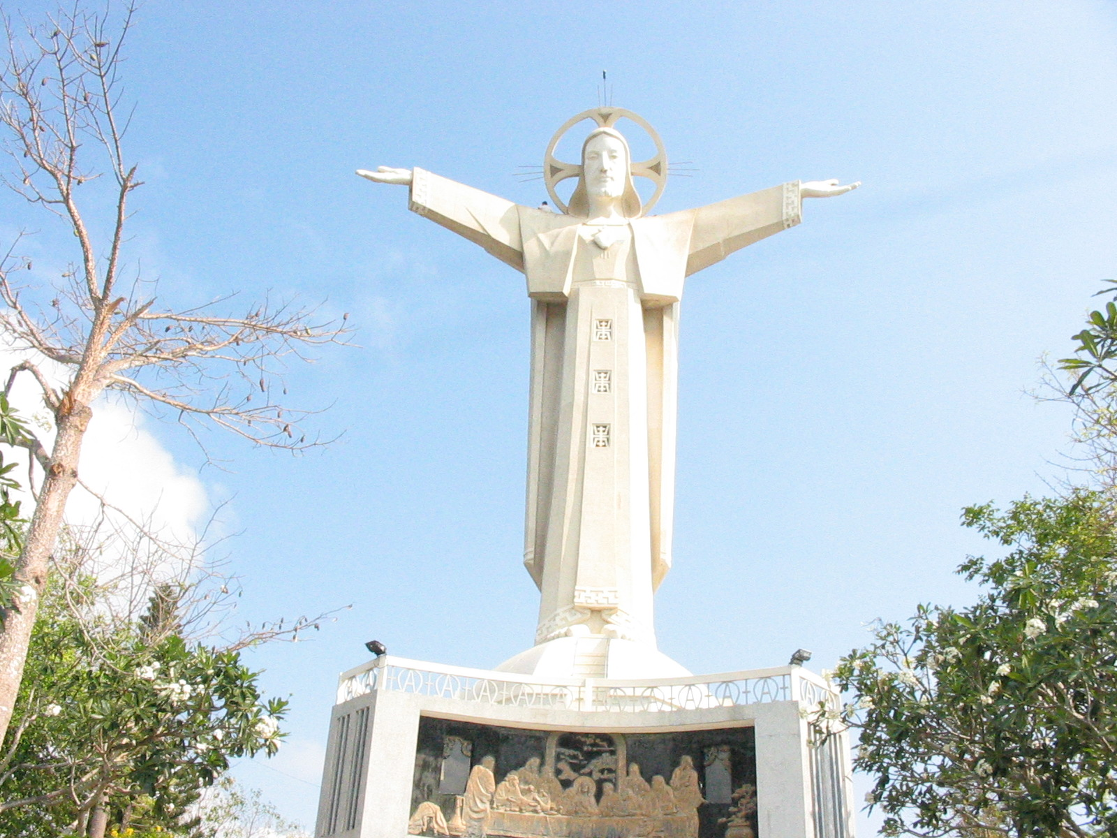 Large statue of Jesus in Vung Tàu, Vietnam.